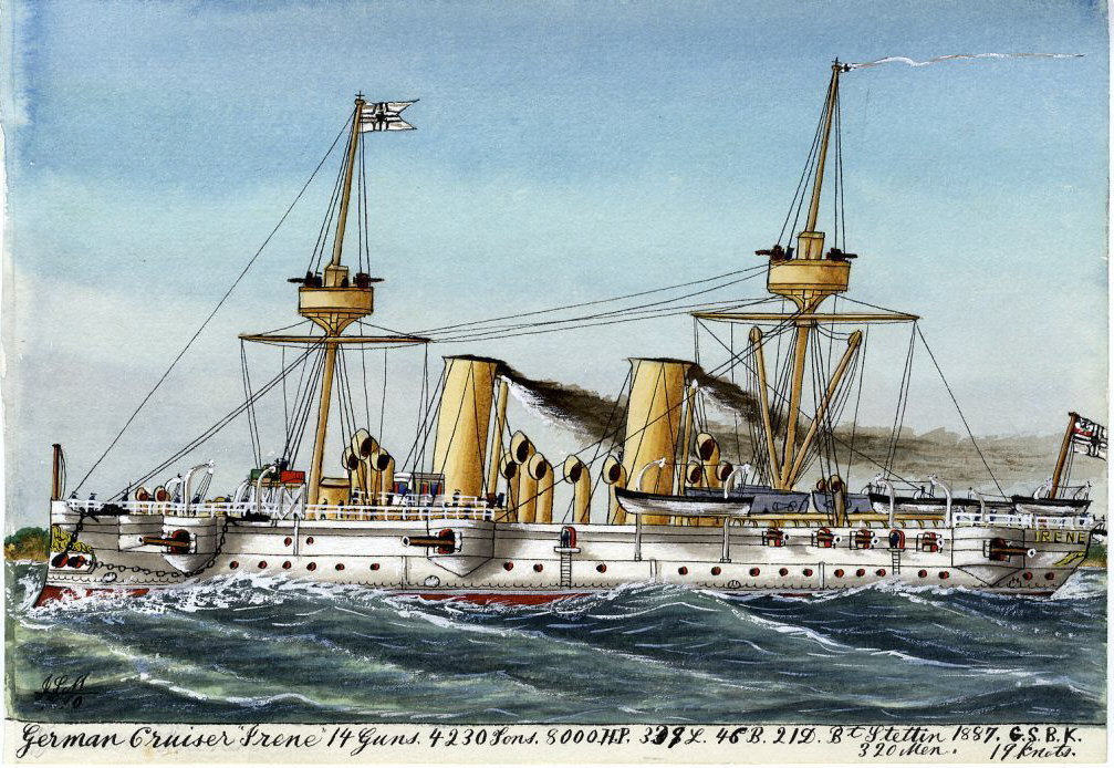 S. M. S. Irene, aquarelle, 25.5 × 17.5 cm